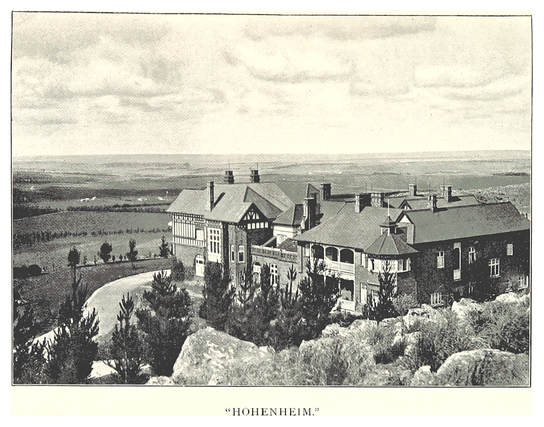 First of the Randlord mansions, Hohenheim. It was designed by Frank Emley (or William Leck) and was home to Sir Lionel Phillips and his wife Lady Florence Phillips. It was the first house built in Parktown in 1892-1894. Hohenheim was donated and converted onto the Otto Beit Convalescent Home in 1915, and was demolished in 1972, but a plaque remains in honor of this important building. ↑ House L Phillips - Hohenheim. . Retrieved on 2 March 2016. ↑ Hospital Hill (Old Suburb between Braamfontein & Hillbrow). Retrieved on 2 March 2016.